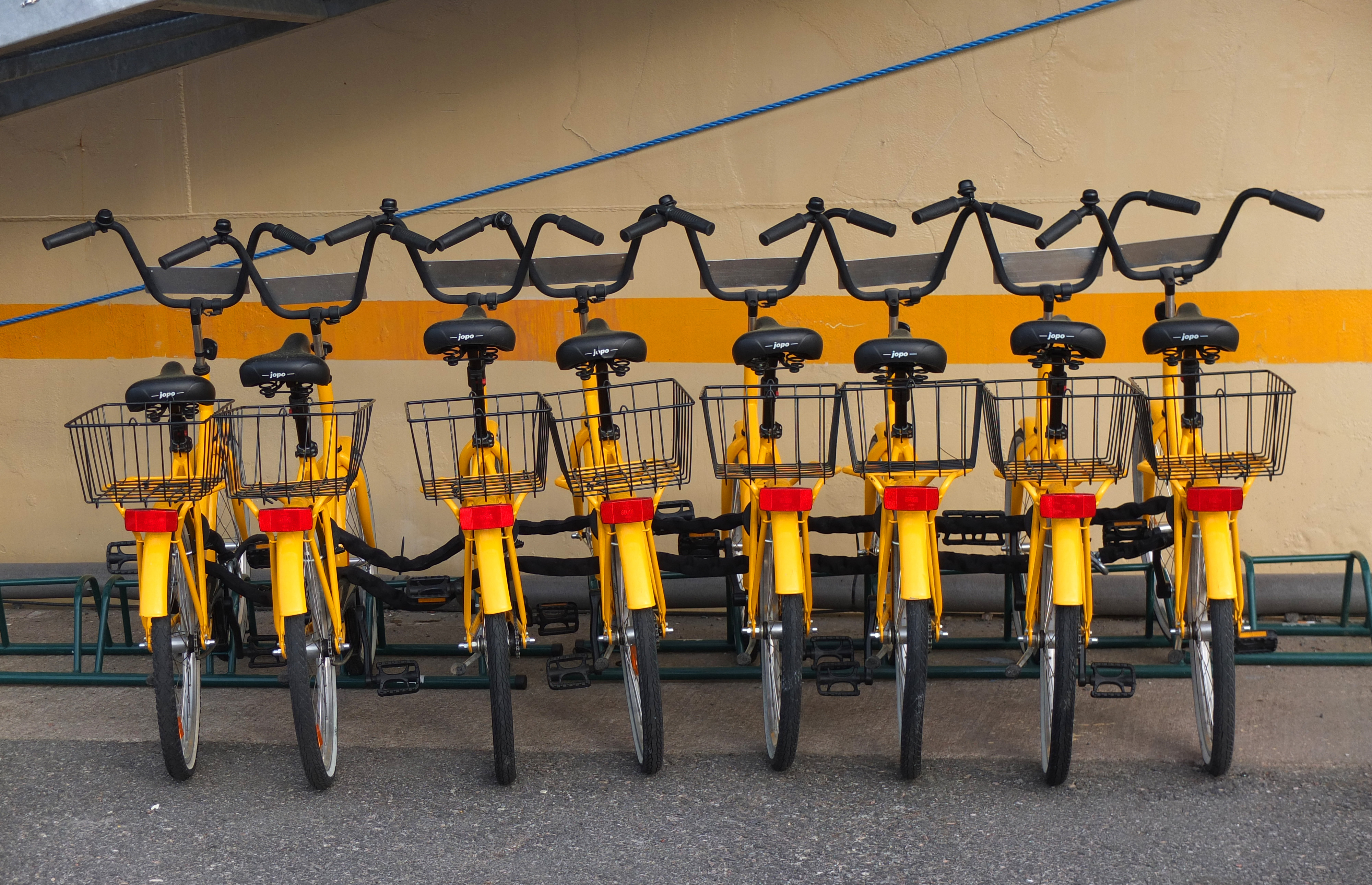 Bicycles for rent by Bore hostel ship, Aura river, Turku, Finland, April 2014